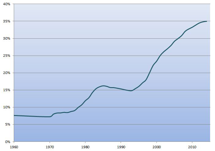 Percentage of illegitimate children in all live births, Germany, 1960-2014, data sources: [1], [2]